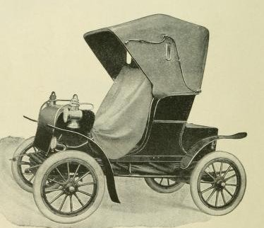 The image is of the 1904 Stevens-Duryea 7 hp model L automobile. It is from the collection of public domain books. The scanned copy came from the Northeastern University, Snell Library. The image is from page 204.